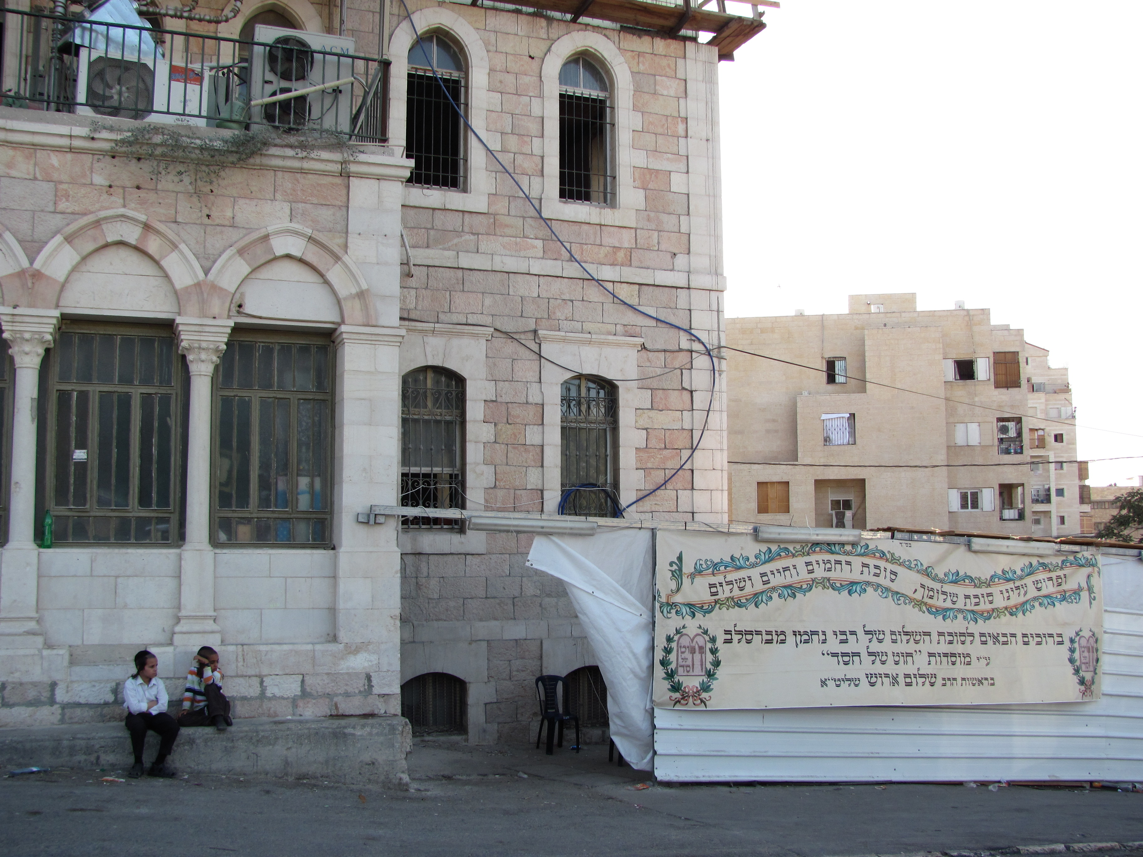 Partial view of the Chut Shel Chessed yeshiva building on Shmuel HaNavi Street in Jerusalem (left), with its large "Sukkah Hashalom (Sukkah of Peace) at Sukkot time. Chut Shel Chessed yeshiva building (left) with its large, aluminum-walled sukkah called the "Sukkah Hashalom" (Sukkah of Peace). Photo taken on Sukkot 2010.